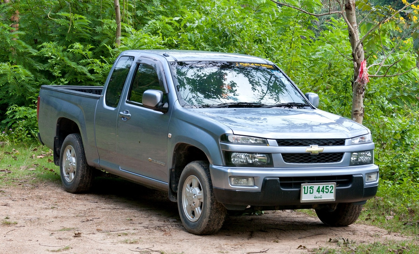 Chevrolet Colorado in Thailand